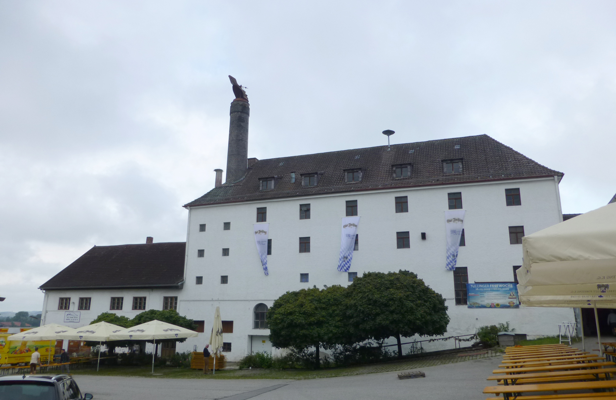 Brewery Hotel at FORSTING, Münchner Strasse 21, part of Pfaffing, Upper Bavaria. Note the chimney upper structure.